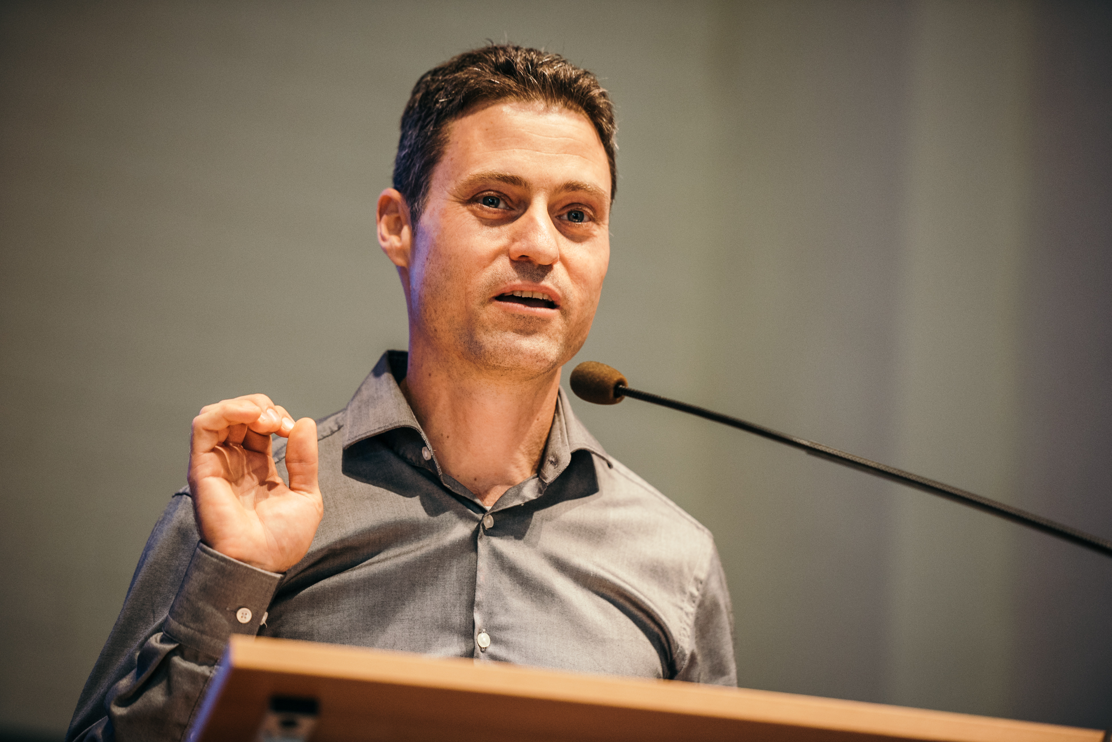 Meron Mendel, Israeli-German educator